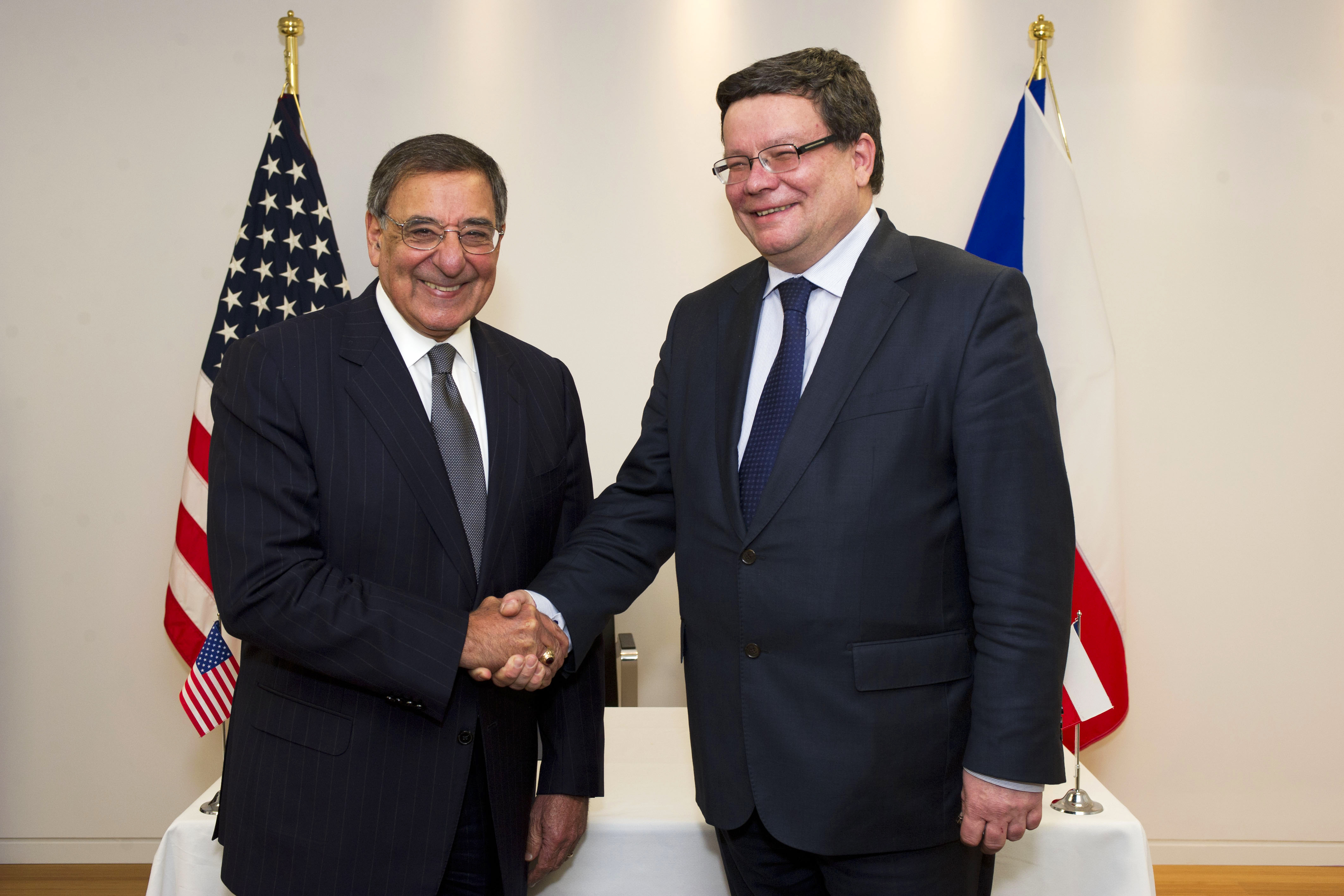 U.S. Defense Secretary Leon E. Panetta shakes hands with Czech Defense Minister Alexandr Vondra before signing the Reciprocal Defense Procurement Agreement at the NATO "jumbo" ministerial at NATO headquarters in Brussels, April 18, 2012. Panetta was in Brussels to meet with various NATO members and NATO defense and foreign affairs ministers.